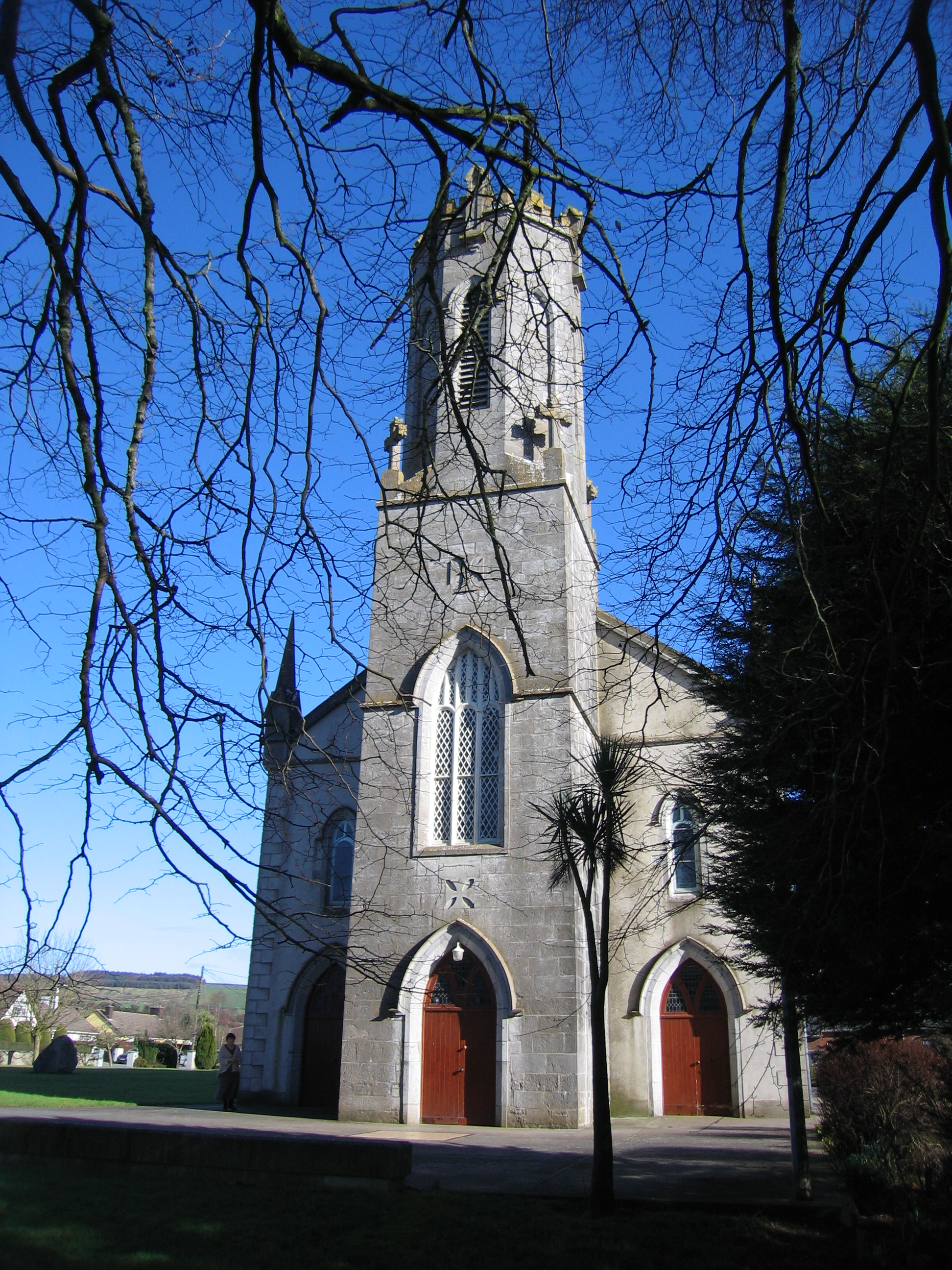 Ballyrowan, Portlaoise, County Laois, Ireland